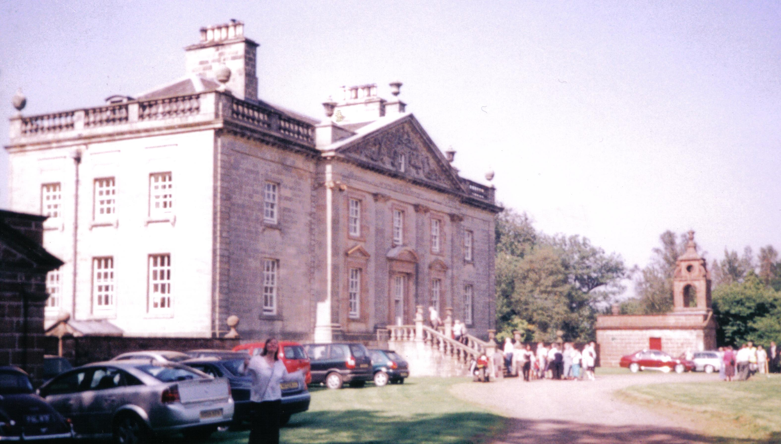 Auchinleck House, Auchinleck, East Ayrshire